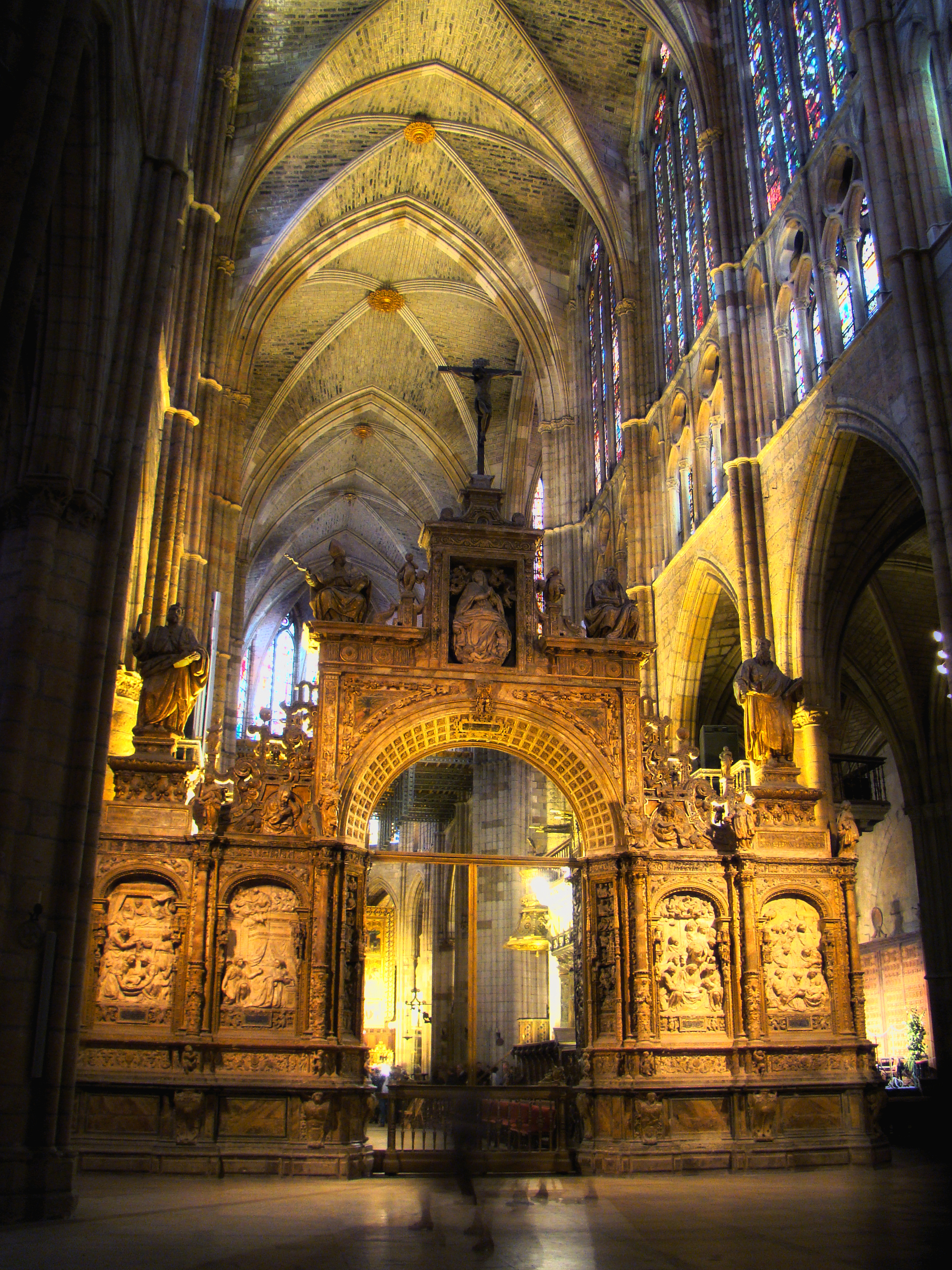 An internal view of the cathedral of León, seen from the western end.